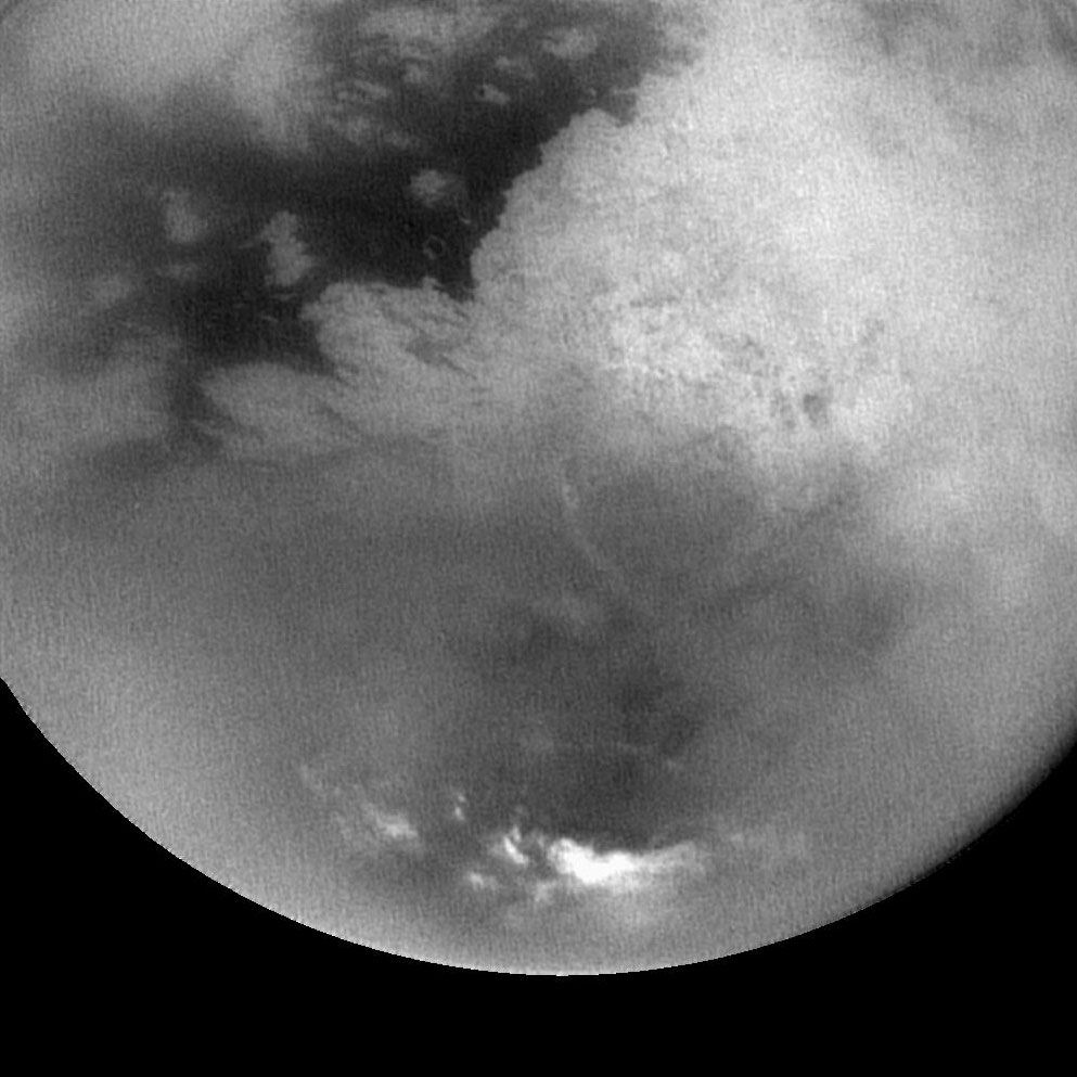 Original caption: The image reveals sharp boundaries between dark and light regions on the surface of Saturn's moon Titan. The photo, taken by the Cassini spacecraft on Oct. 25, 2004 from about half a million miles away, has been processed to reduce the blurring effect of atmospheric haze and sharpen the edges of features. The bright area on the center right is Xanadu, a region that has been observed previously from Earth and by Cassini. To the west of Xanadu lies an area of dark material that completely surrounds brighter features in some places. Narrow linear features, both dark and bright, can also be seen. It is not clear what geologic processes created these features, although it seems clear that the surface is being shaped by more than impact craters alone. The very bright features near Titan's south pole are clouds similar to those observed during the distant Cassini flyby on July 2, 2004.